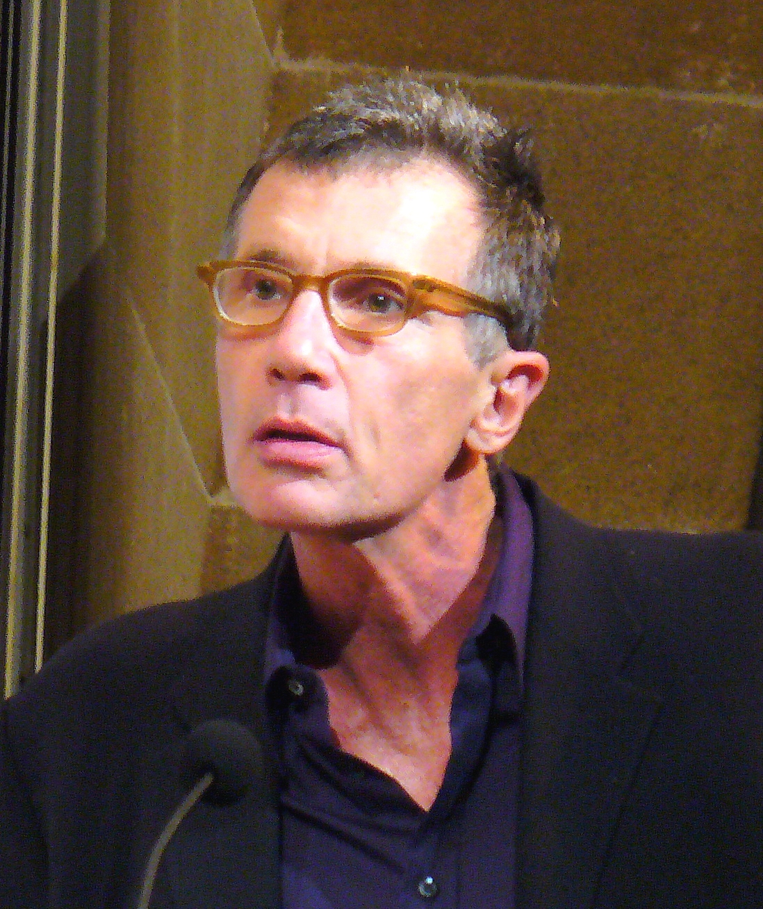 Michael Cunningham by David Shankbone